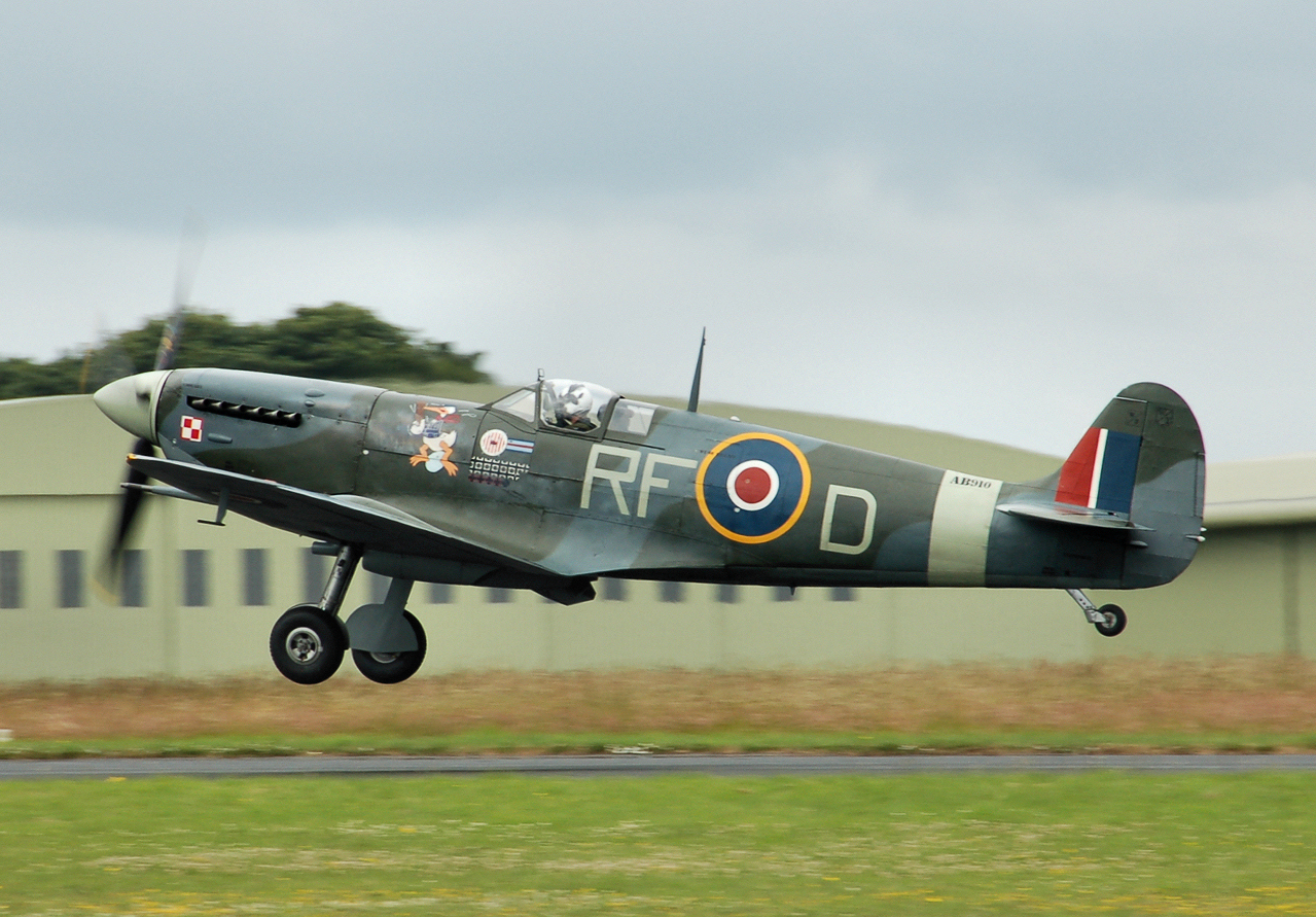 Supermarine Spitfire Mark 5b (AB910, RF-D) of the UK Battle of Britain Memorial Flight takes off from Kemble Air Day 2009, Kemble, Gloucestershire, England.